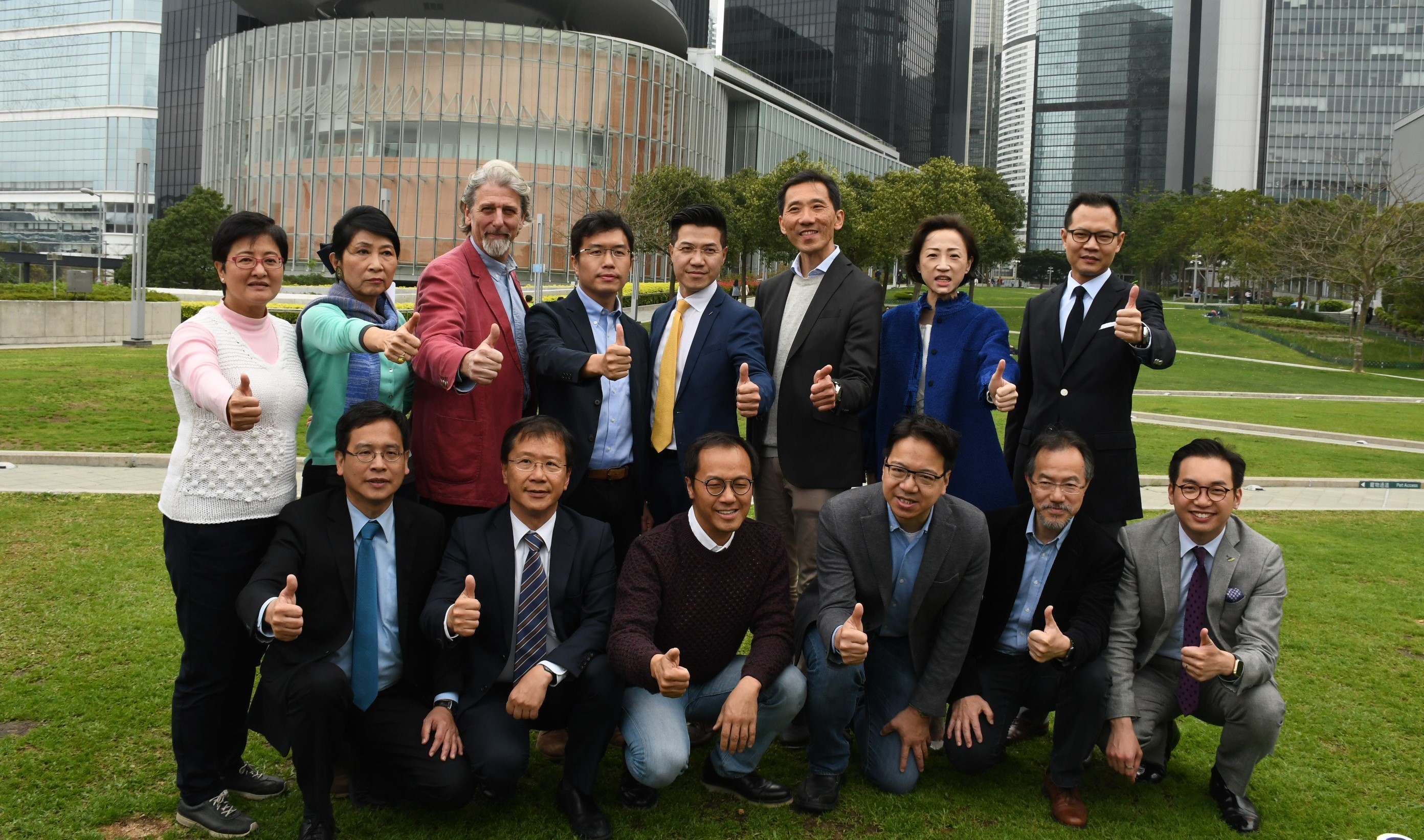 香港民主派立法會議員支持4名補選候選人 (攝影：美國之音湯惠芸)